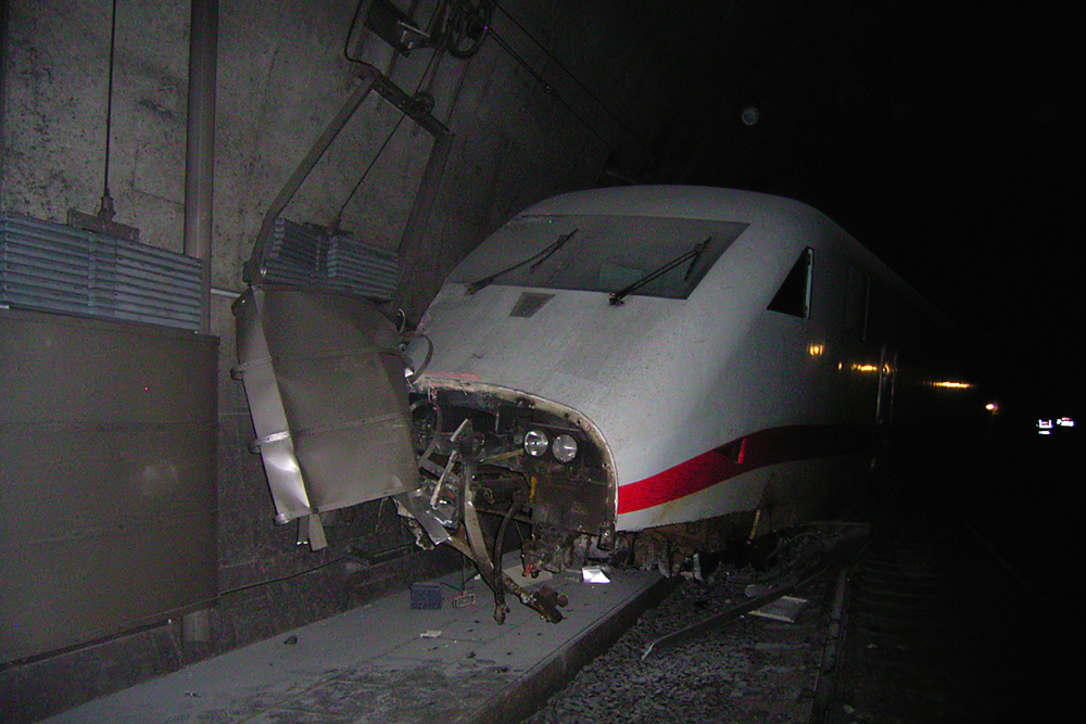 A derailed ICE 1 powerhead came to a full stop at the tunnel wall after it had crashed in a flock of sheep and derail.